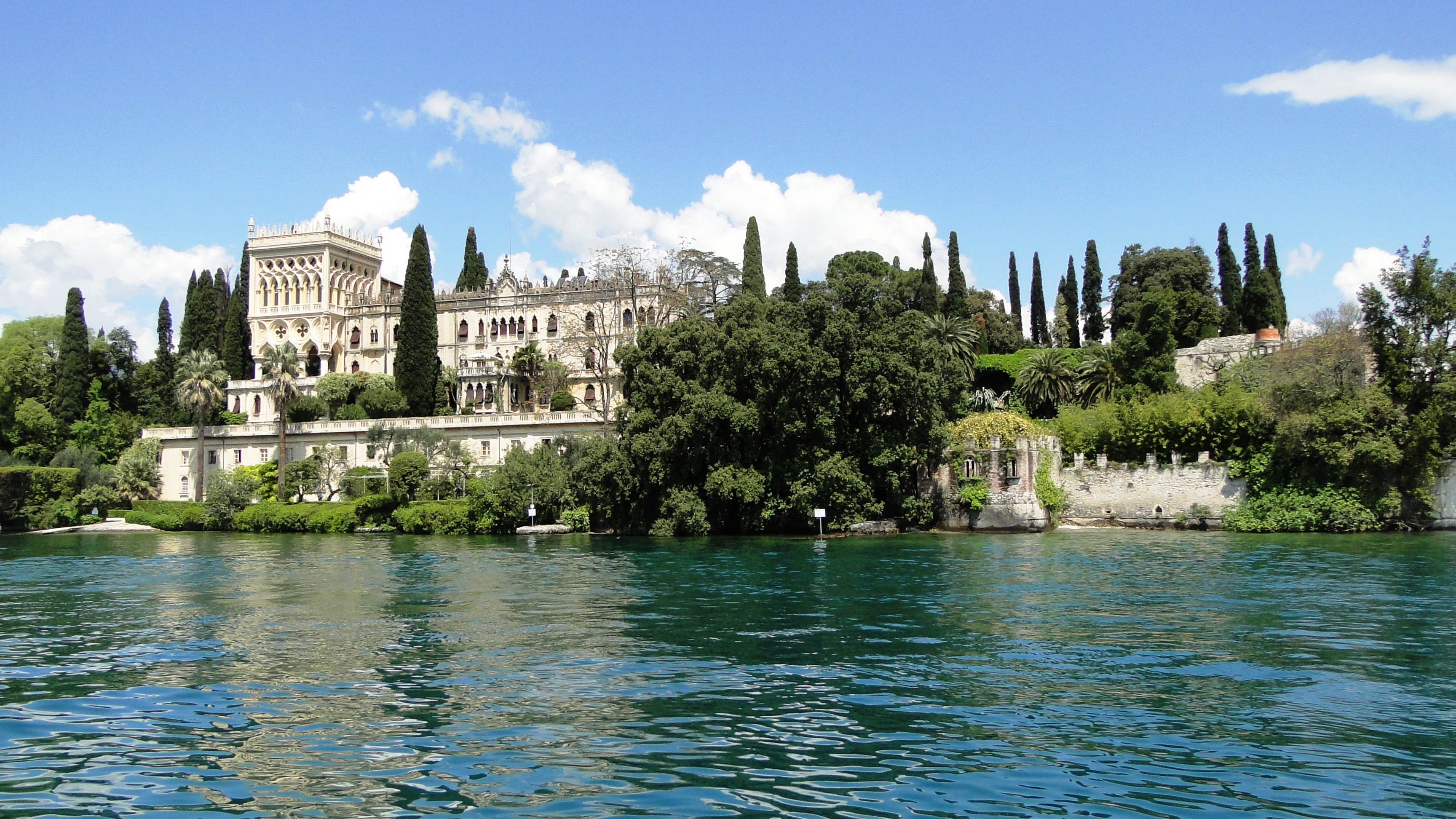 Villa Borghese-Cavazza on the Isola del Garda, Lake Garda, Italy as seen from the lake with fortifications on the right